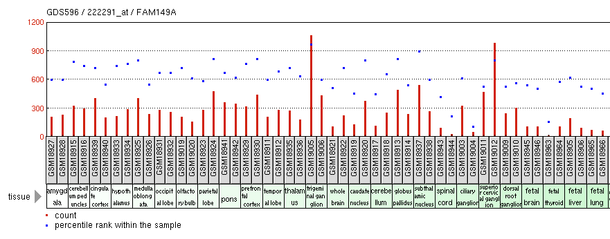 FAM149A Expression 1